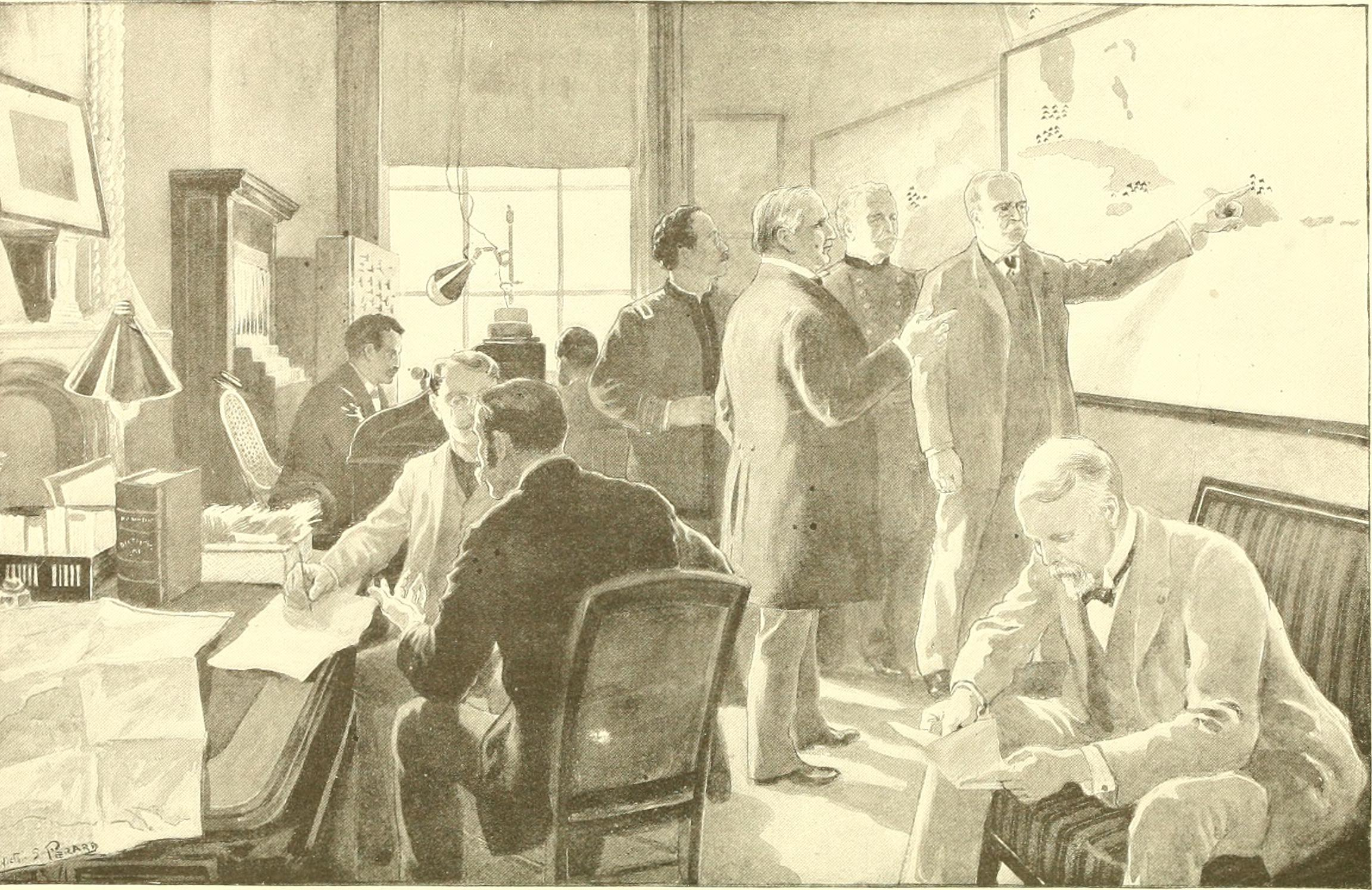 Title: From 1800 to 1900. The wonderful story of the century; its progress and achievements .. Year: 1899 (1890s) Authors: Morris, Charles, 1833-1922 Subjects: Nineteenth century Publisher: Chicago, Ill., A.B. Kuhlman Company Text Appearing Before Image: ' Text Appearing After Image: In the War Room at Washington, Secretary Long, Alger, Major General Miles, progress of the Spanish American War. ** THE DEVELOPMENT OF THE AMERICAN NAVY 485 to the careful sighting of the pieces that our sailors owed much of their victorious career. While most of the British shot were wasted on the sea and in the air, nearly all the American balls went Amencan 1 11 1 n ■ • 1 11 • Harksmariship home, carrying death to the lintish crews and destruction to their hulls and spars, while the American ships and sailors escaped in great measure unharmed. As regards the work of our naval inventors, it will suffice to say, that the Americans, while not the first to plate vessels with iron, were the firstto do so effectively and to prove the superiority of the ironclad in navalwarfare. The memorable contest in Hampton Roads between the Monitor and the Merrimac made useless in a day all the fleets of all the nations ofthe world, and caused such a revolution in naval architecture and warfar